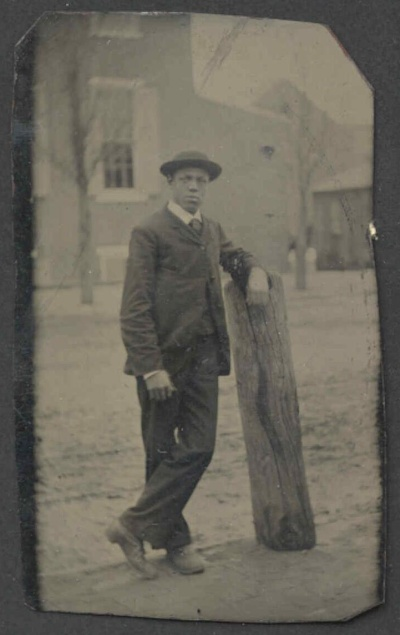 Ferrotipo, tintype or ferrotype.